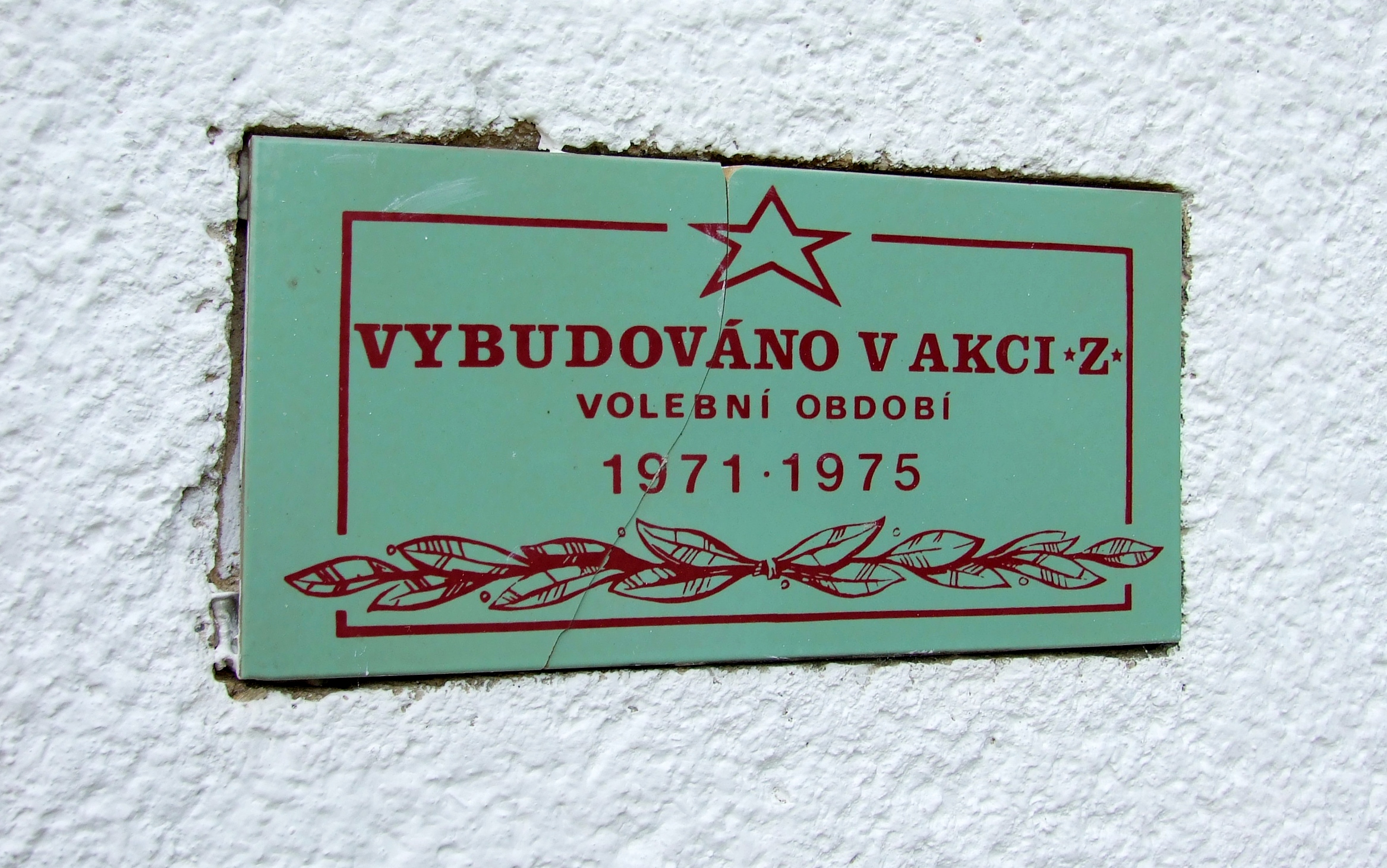 Akce Z communist label on local shopHelp